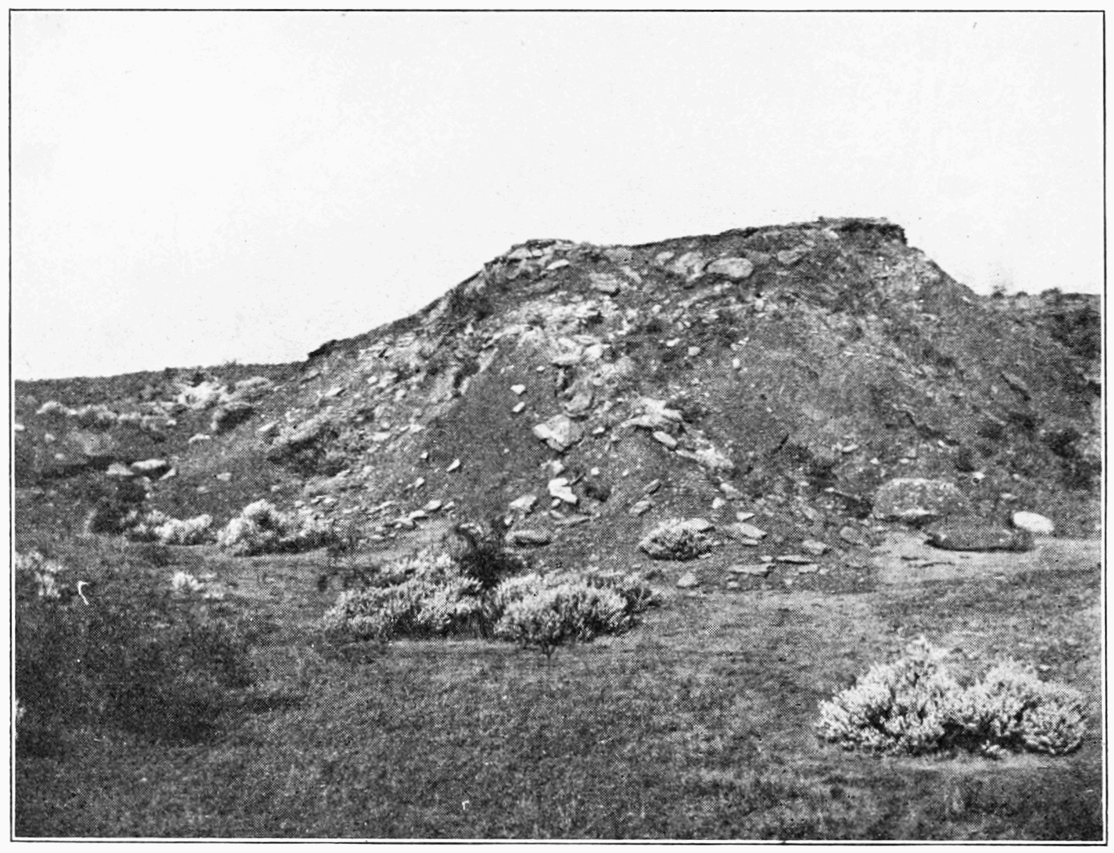 Original figure caption: View in Willbarger County, Texas, showing the character of the beds in which the bones occur. Note: “The beds in which the bones occur” correspond to the Clear Fork Formation/Group, Lueders Formation or Waggoner Ranch Formation of modern nomenclature and are of Lower Permian age.